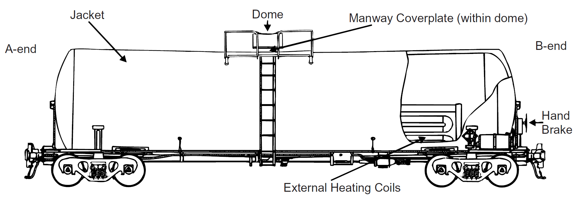 Photo and diagram showing tank cars of same design as UTLX 643593. Union Tank Car Company built UTLX 643593, a U.S. Department of Transportation (DOT) specification 111J100W1 tank car, in late 1992 or early 1993. It was 1 of 52 tank cars (UTLX 643546 through 643597, inclusive) ordered by Olin and designed for TDI product transportation. The certificate of construction for UTLX 643593 and its sister tank cars indicates that these cars were approved for carriage of TDI and Non-regulated commodities and commodities authorized in DOT Part 173 [49 Code of Federal Regulations (CFR) 173] for which there are no other requirements and which are compatible with this design and class of car. Each of these tank cars had a capacity of 20,000 gallons.